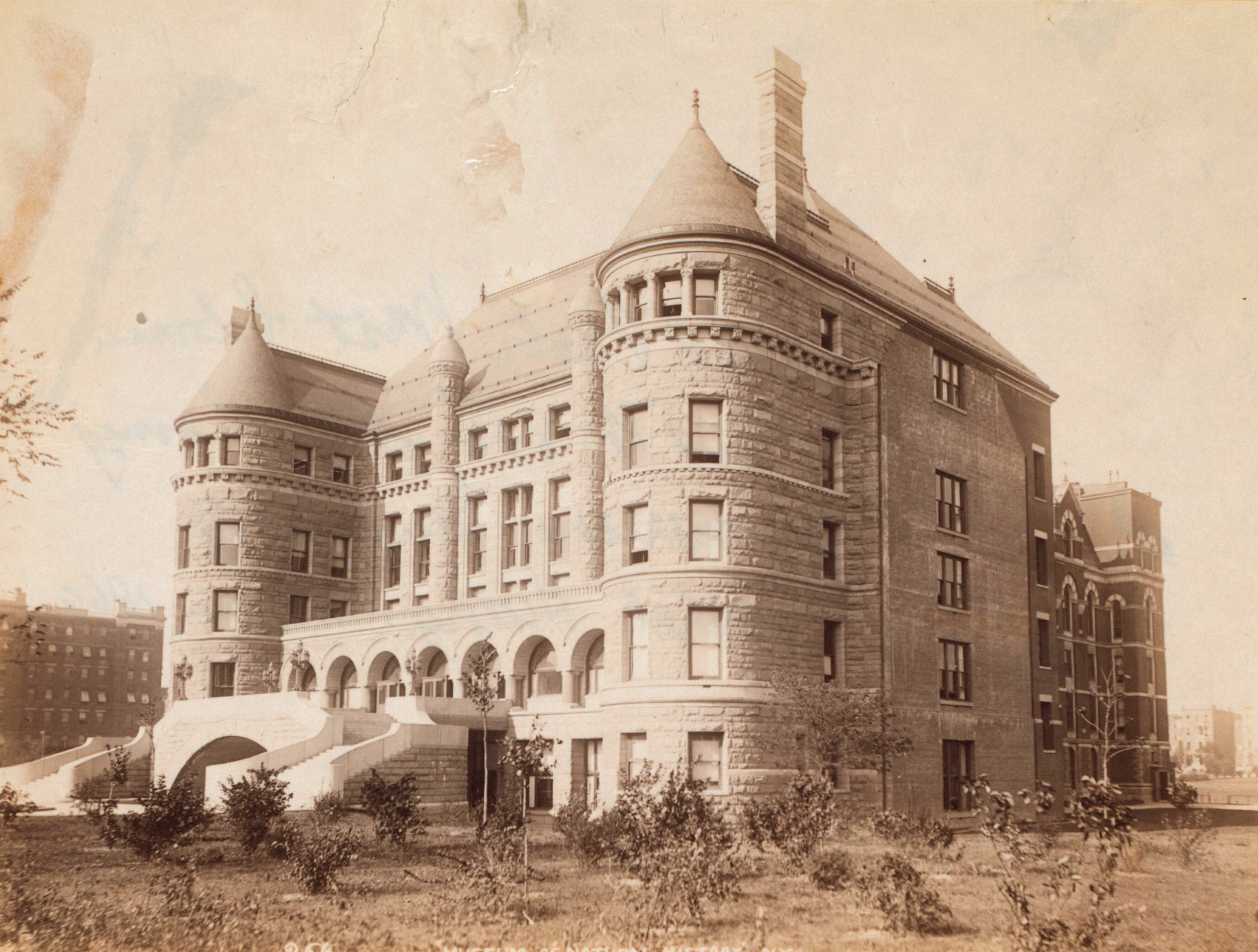 The early south façade of the American Museum of Natural History, along West 77th Street